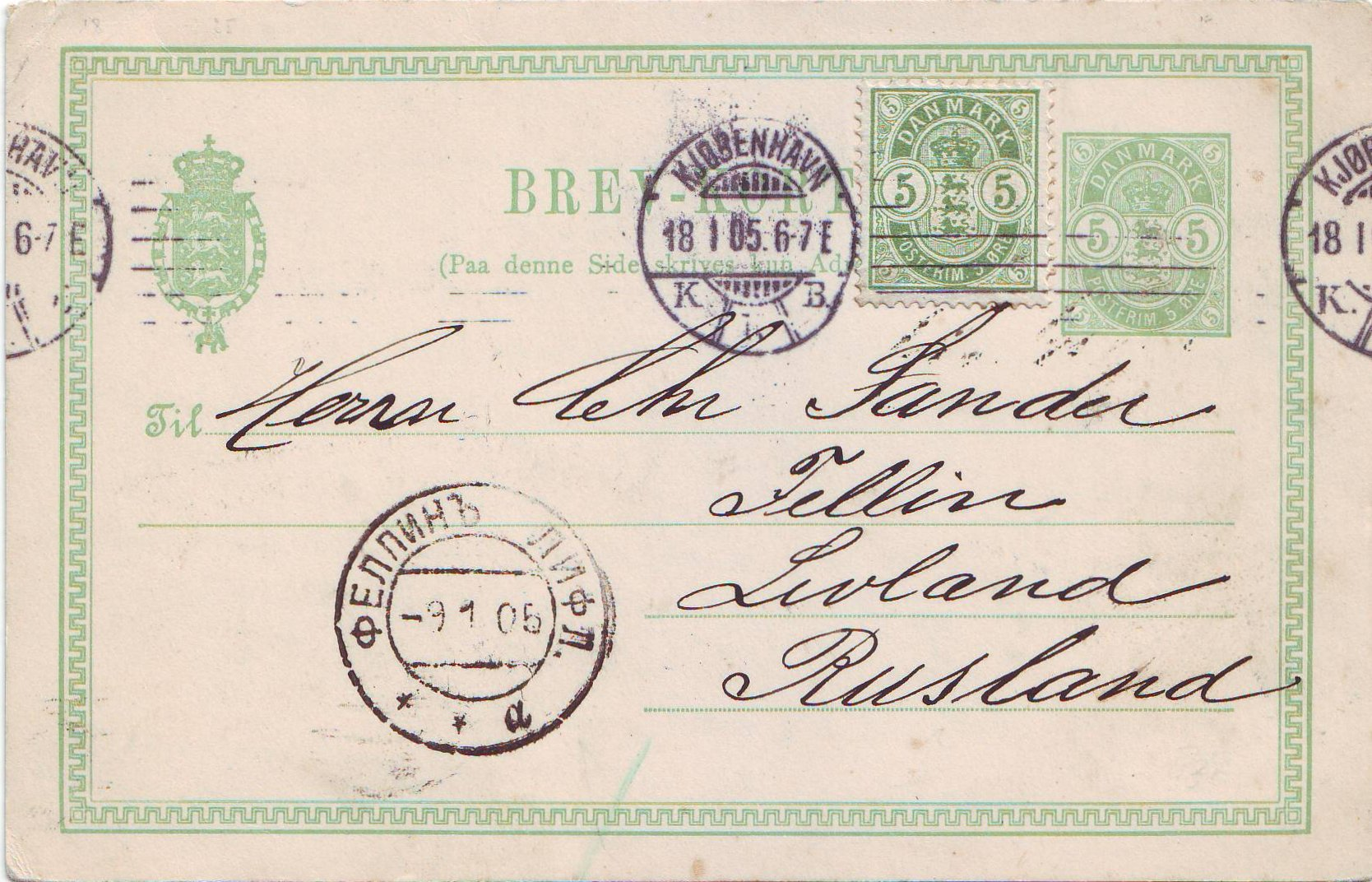 Postcard from Copenhagen to Fellin (Livonia, Imperial Russia), present-day Viljandi in Estonia. Sent 18 January 1905, arrived 9 January 1905. No mistake. Russia still used the Julian calendar, which was 13 days behind the Gregorian calendar in Western Europe. The Gregorian date for 9 January was 22 January. The postcard’s journey took four days.